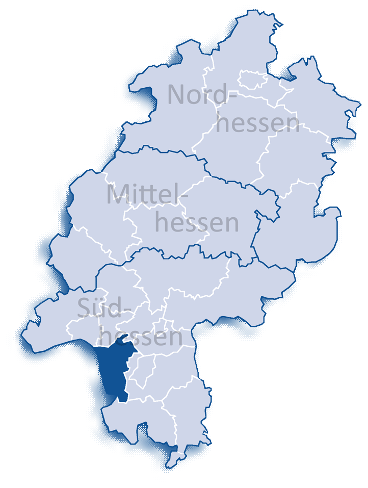 The map shows the district Groß-Gerau. A district in Hesse